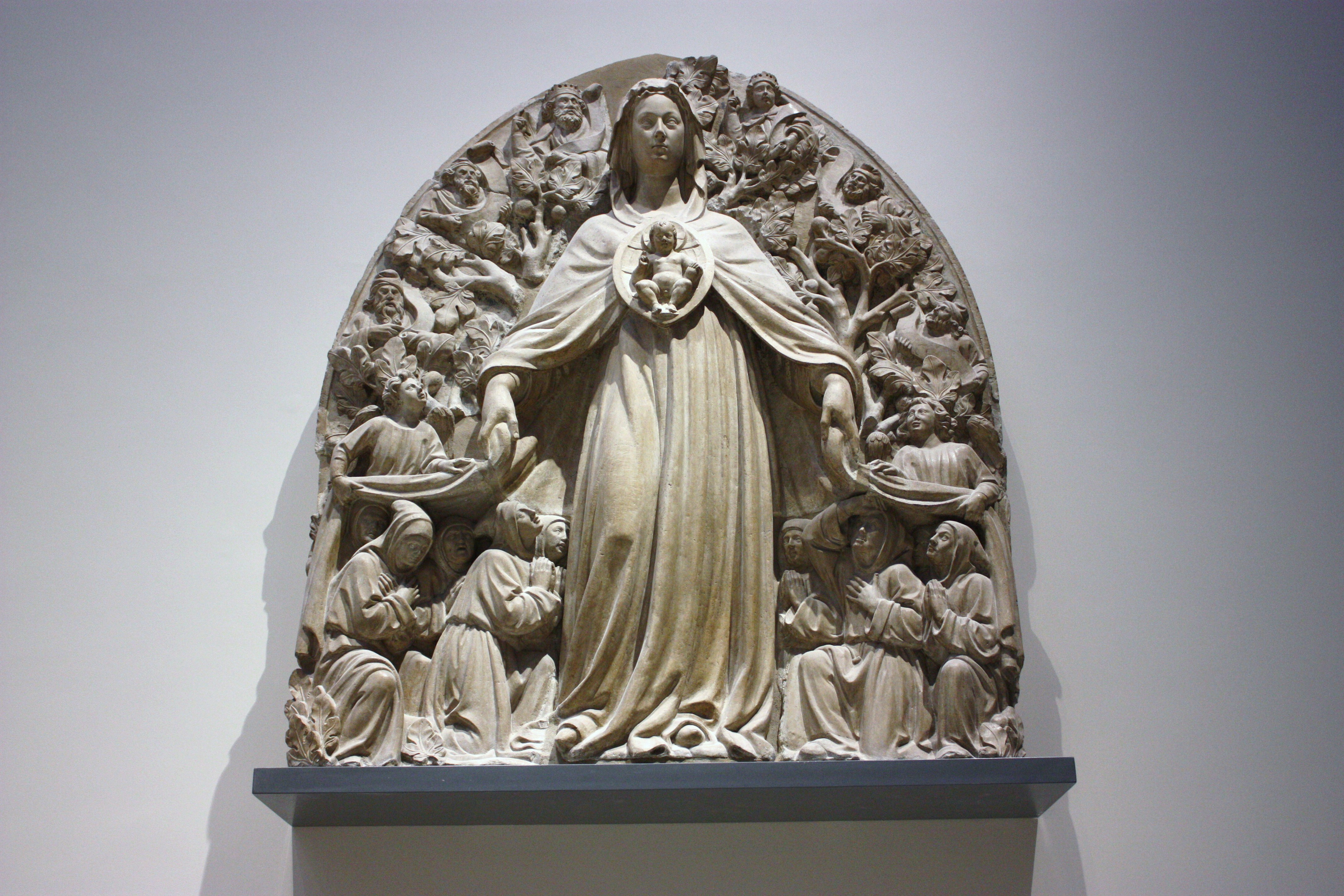 Moved and altered 1612 and 1828-40 Istrian stone with traces of paint A Venetian \'scuola\', or confraternity commissioned this sculpture to sit over the entrance to their meeting house. Members of the confraternity shelter under the Virgin\'s cloak. Surrounding the Virgin are prophets seated in the Tree of Jesse. They hold scrolls announcing the Coming of Christ, who is shown as a baby on the Virgin\'s breast. The pointed arch reflects the Gothic style of the original setting. Bartolomeo Bon was a member of the confraternity and one of the most important sculptors in Renaissance Venice. This photo was taken as part of Britain Loves Wikipedia in February 2010 by Valerie McGlinchey.